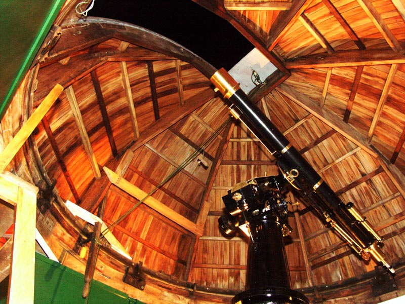 Thomas King Telescope at Carter Observatory, The National Observatory of New Zealand, photo by Paul Moss